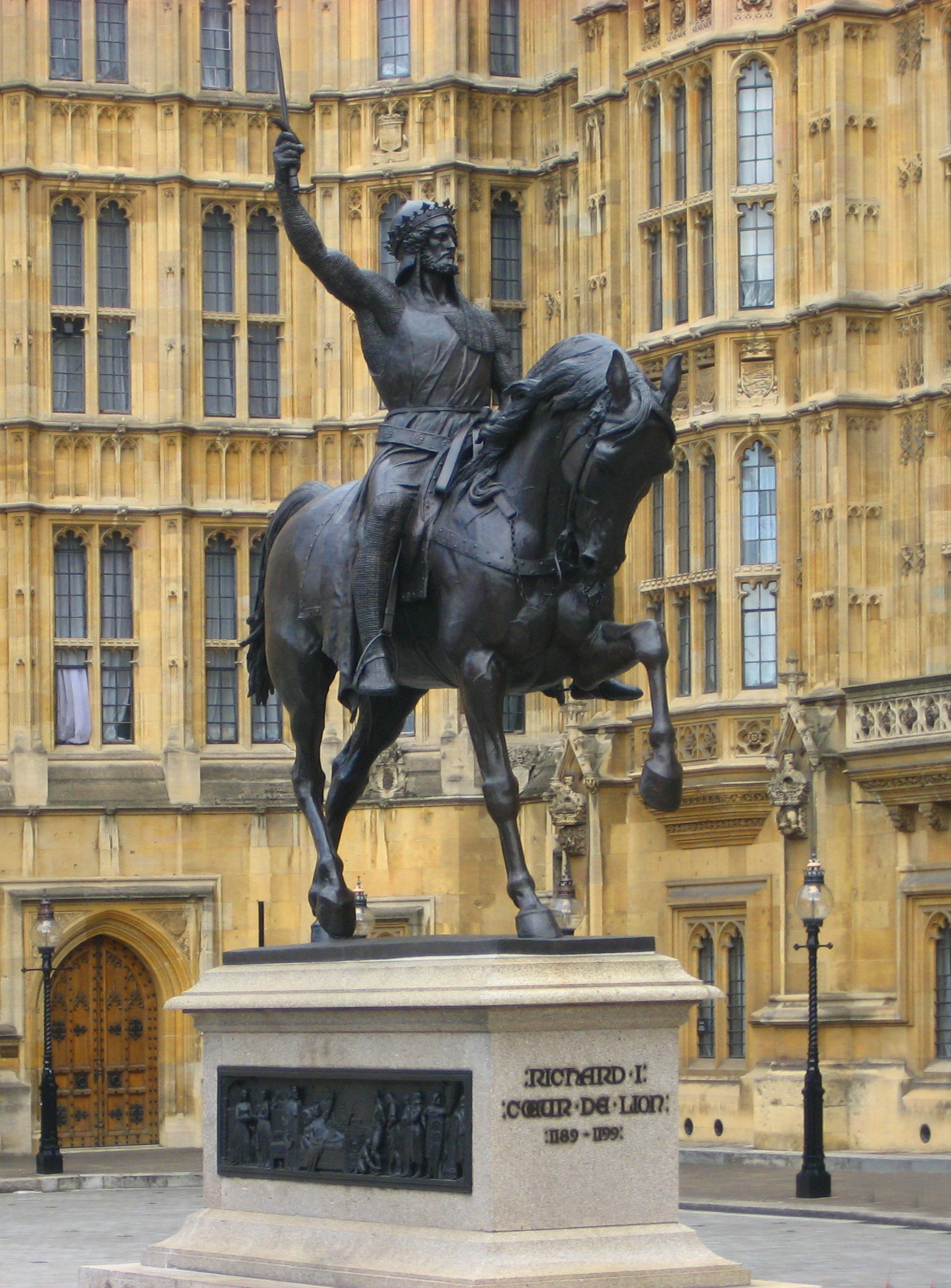 Richard The Lion Heart astride his mount in a place of honour next to Parliament